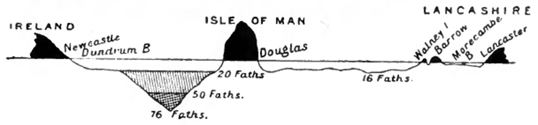 Cross-section of the Irish Sea, from Ireland through the Isle of Man to England